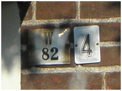 Close up of signs with both the present number 4 in street and the historical number W 82 in Weteringen neighbourhood